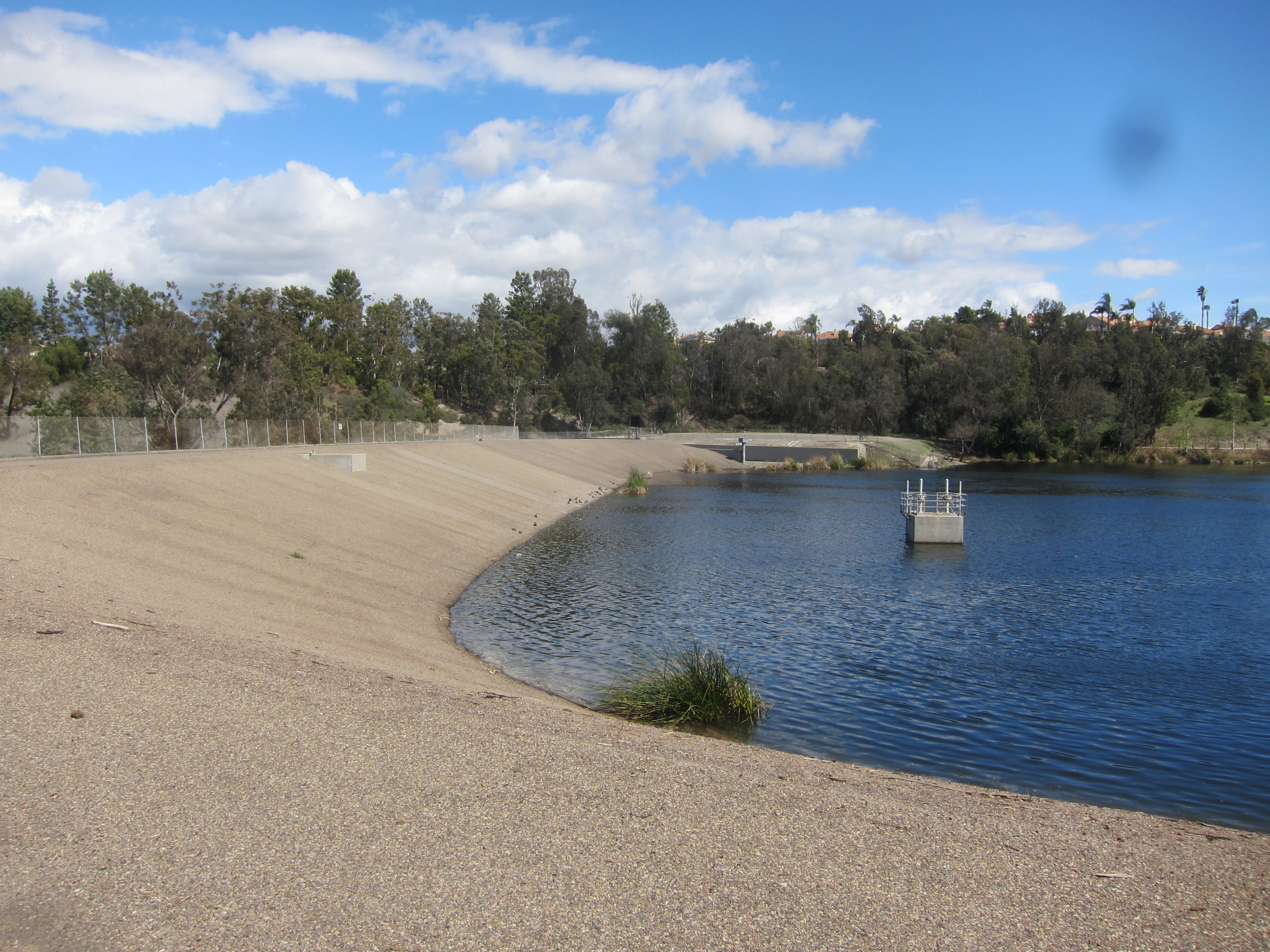 View of Sulphur Creek Dam and Laguna Niguel Lake, Orange County, California